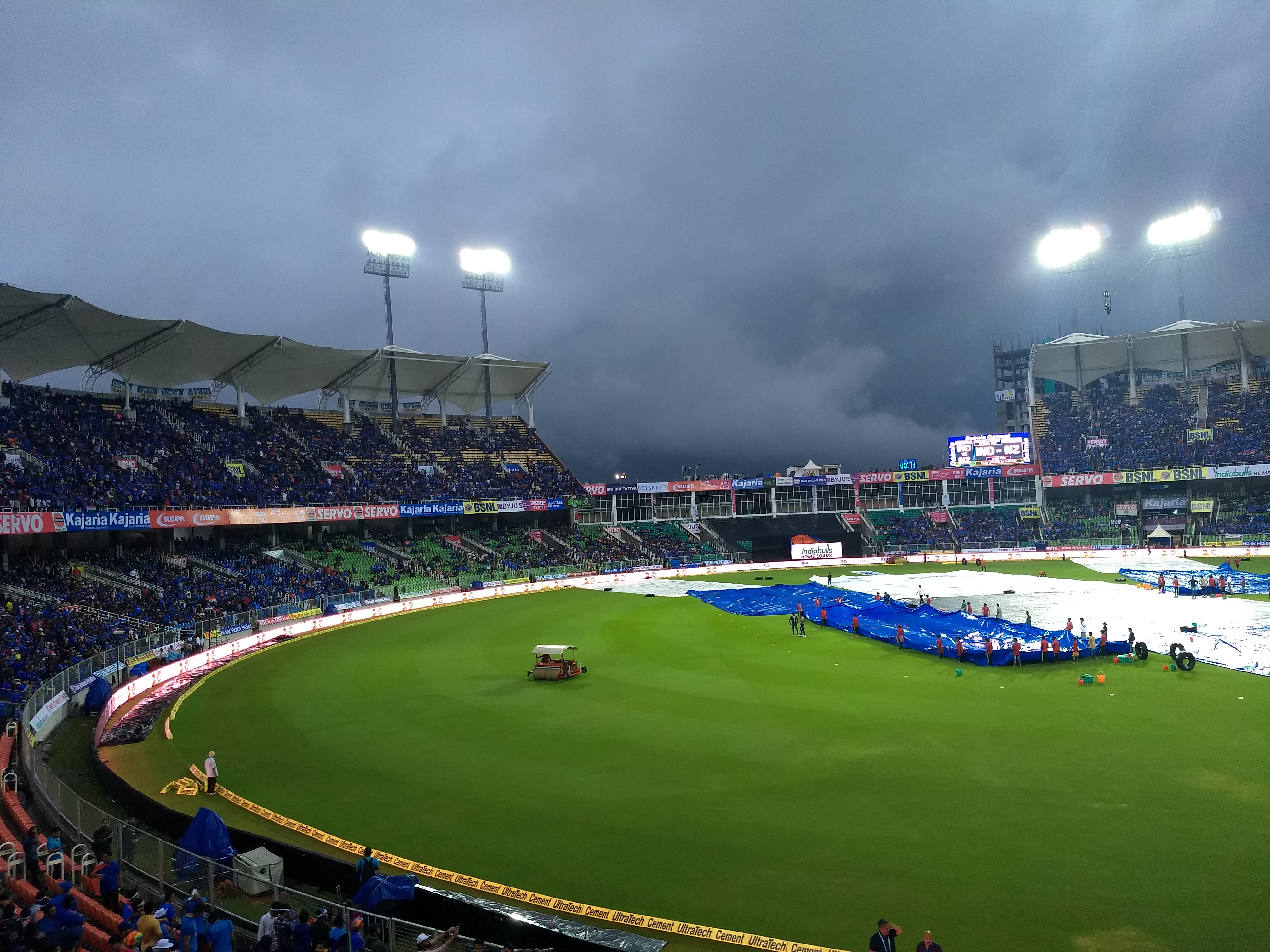 Greenfield Stadium or Karyavattam Sports hub is an international Stadium located in Trivandrum, Kerala, India. The stadium is mainly used for Cricket matches. The photograph was taken before the international 20-20 match between India and Newzealand on 7 November 2017. My friend Vishnu from Polayathodu, Kollam helped me to take this photo.